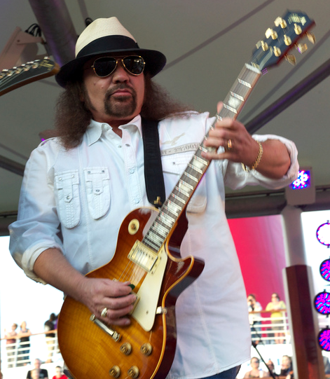 Gary Rossington guitarrist of Lynyrd Skynyrd performing live at Simpleman (2011).